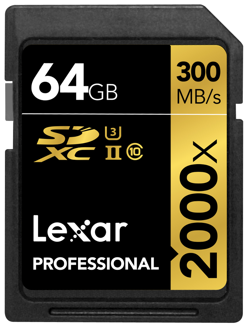 Lexar® Professional 2000x 64GB SDXC™ UHS-II card